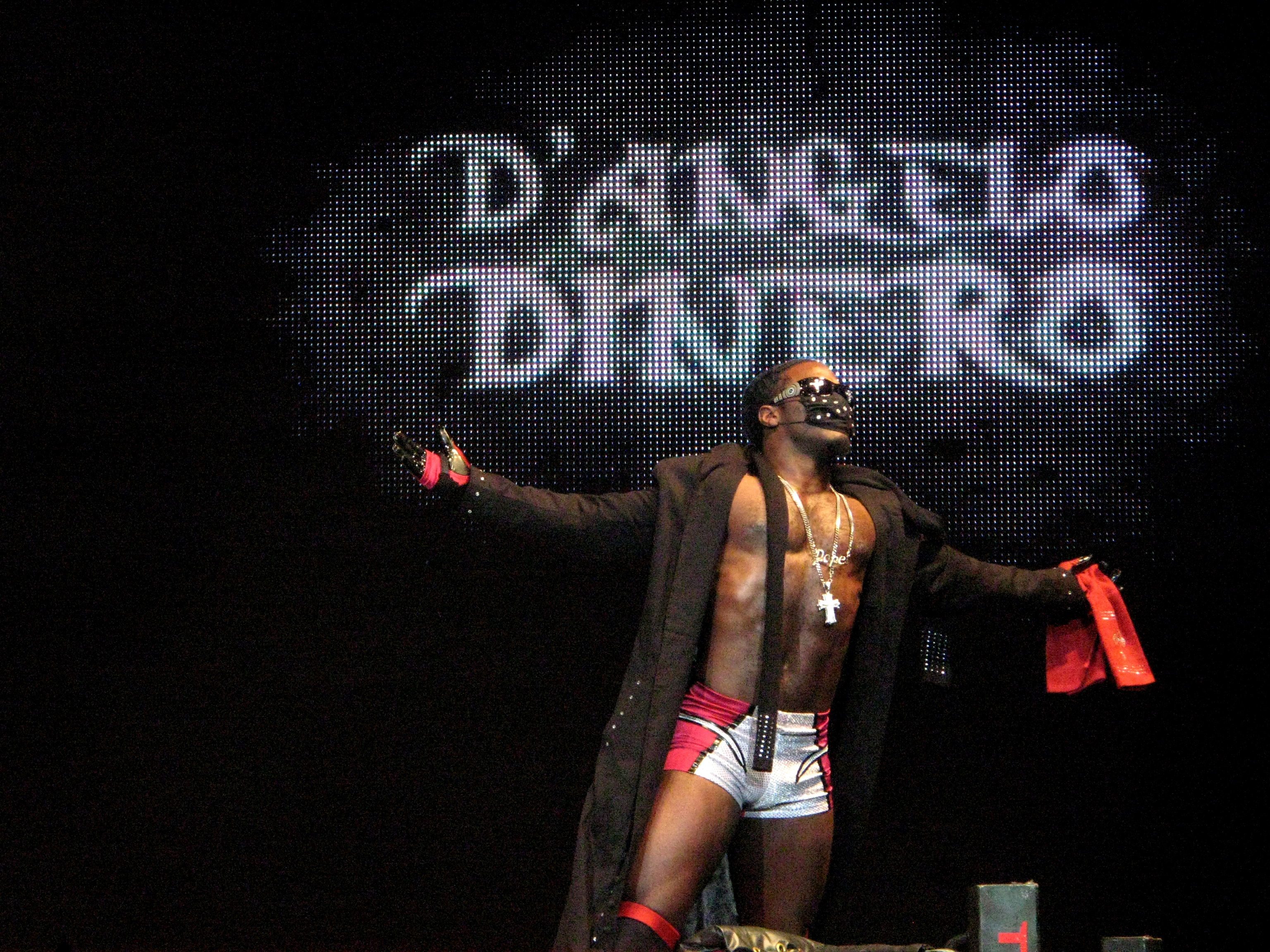 The Pope D'Angelo Dinero